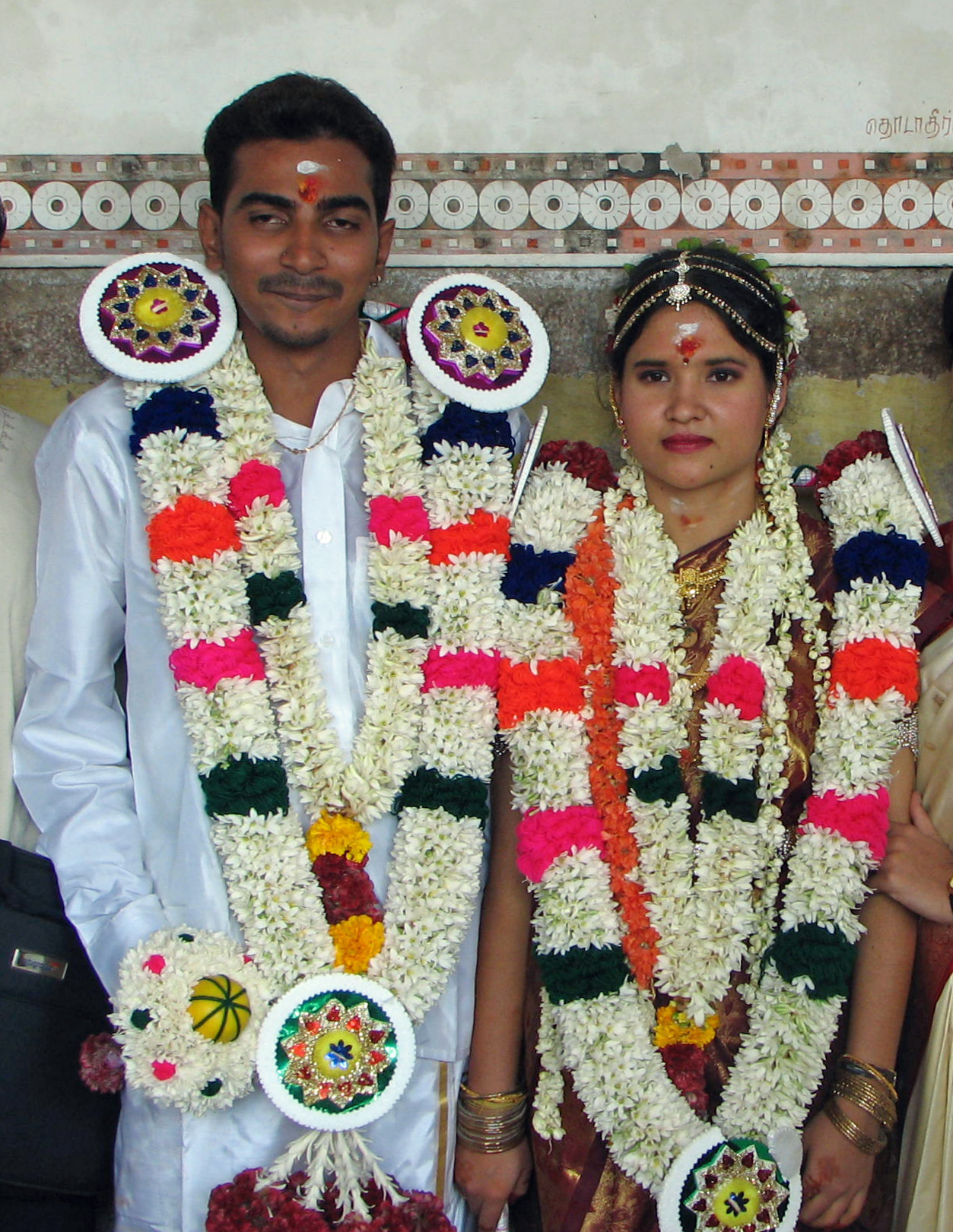 New married, Madurai Meenakshi temple, state of Tamil Nadu, India